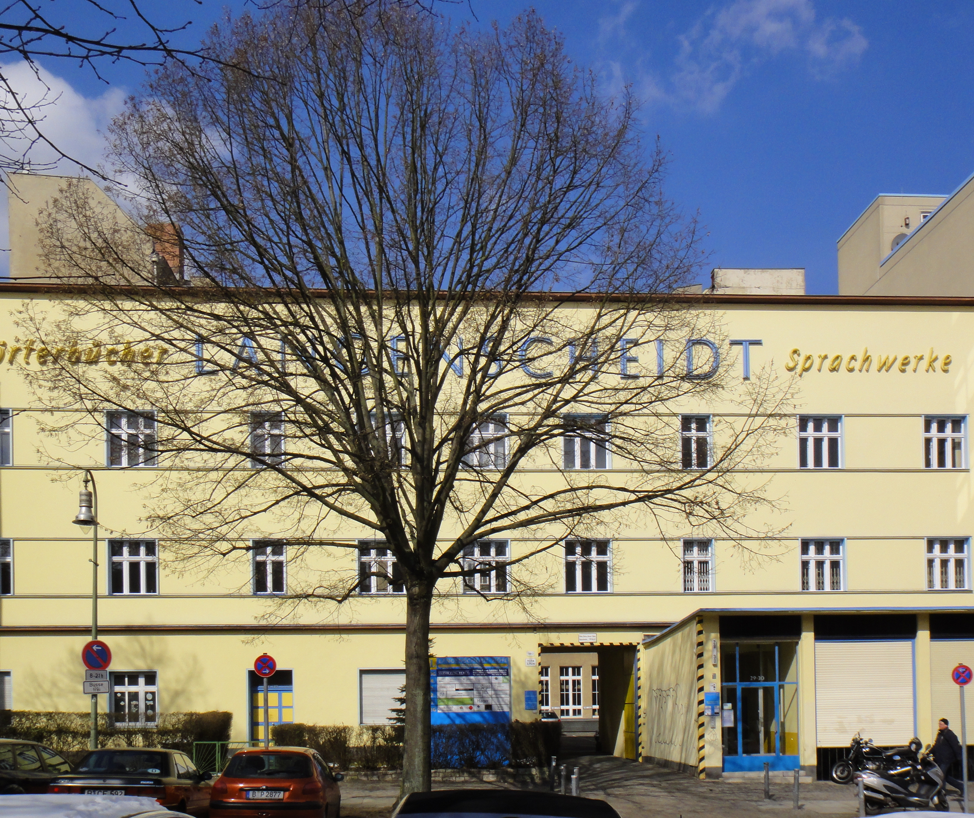 Langenscheidt-Höfe. Formerly the seat of publisher Langenscheidt, now a mixed commercial building in Berlin-Schöneberg